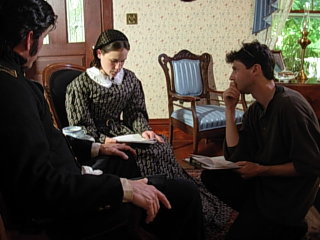 Steven Fischer (right) directing Winston Shearin and Katie Tschida in Now & Forever Yours: Letters to an Old Soldier in 2007.